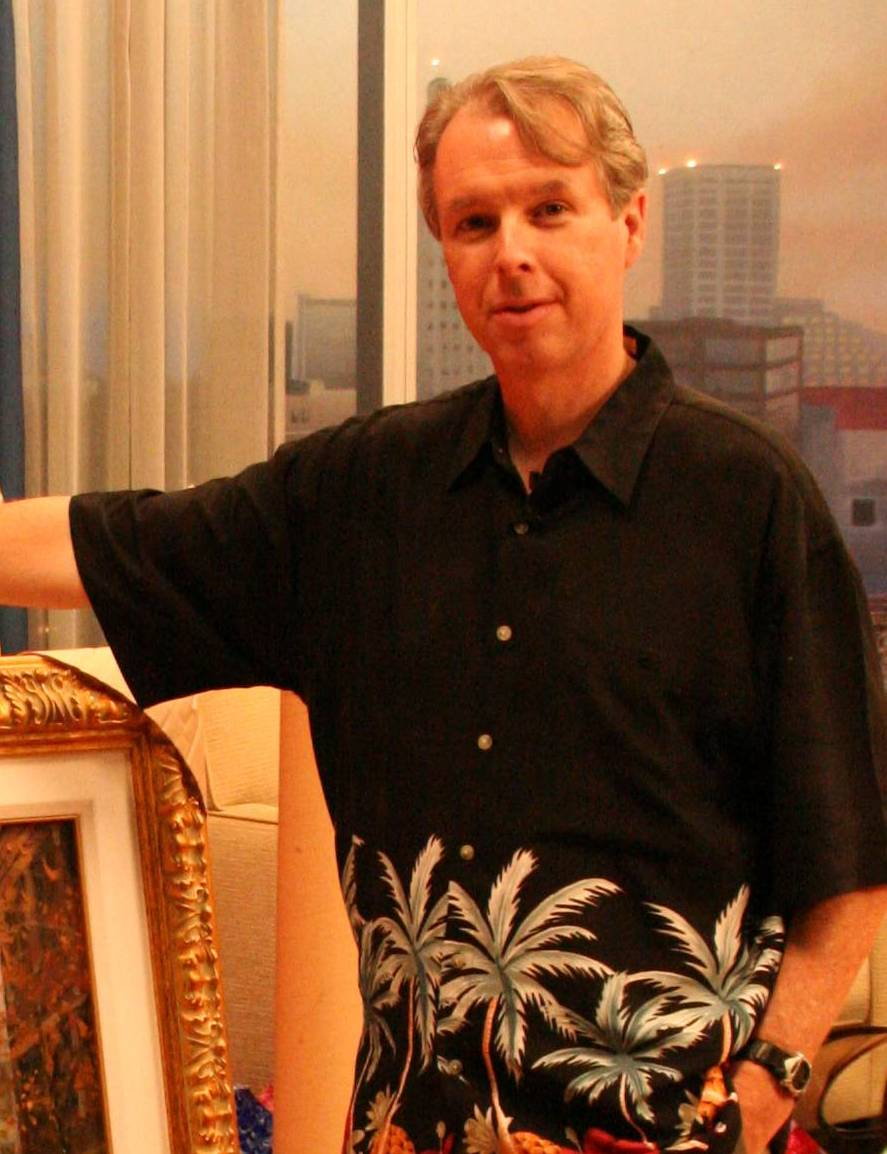 Lindsay Dawson in December 2007 promoting a set of his new paintings at the Fine Art Showcase.